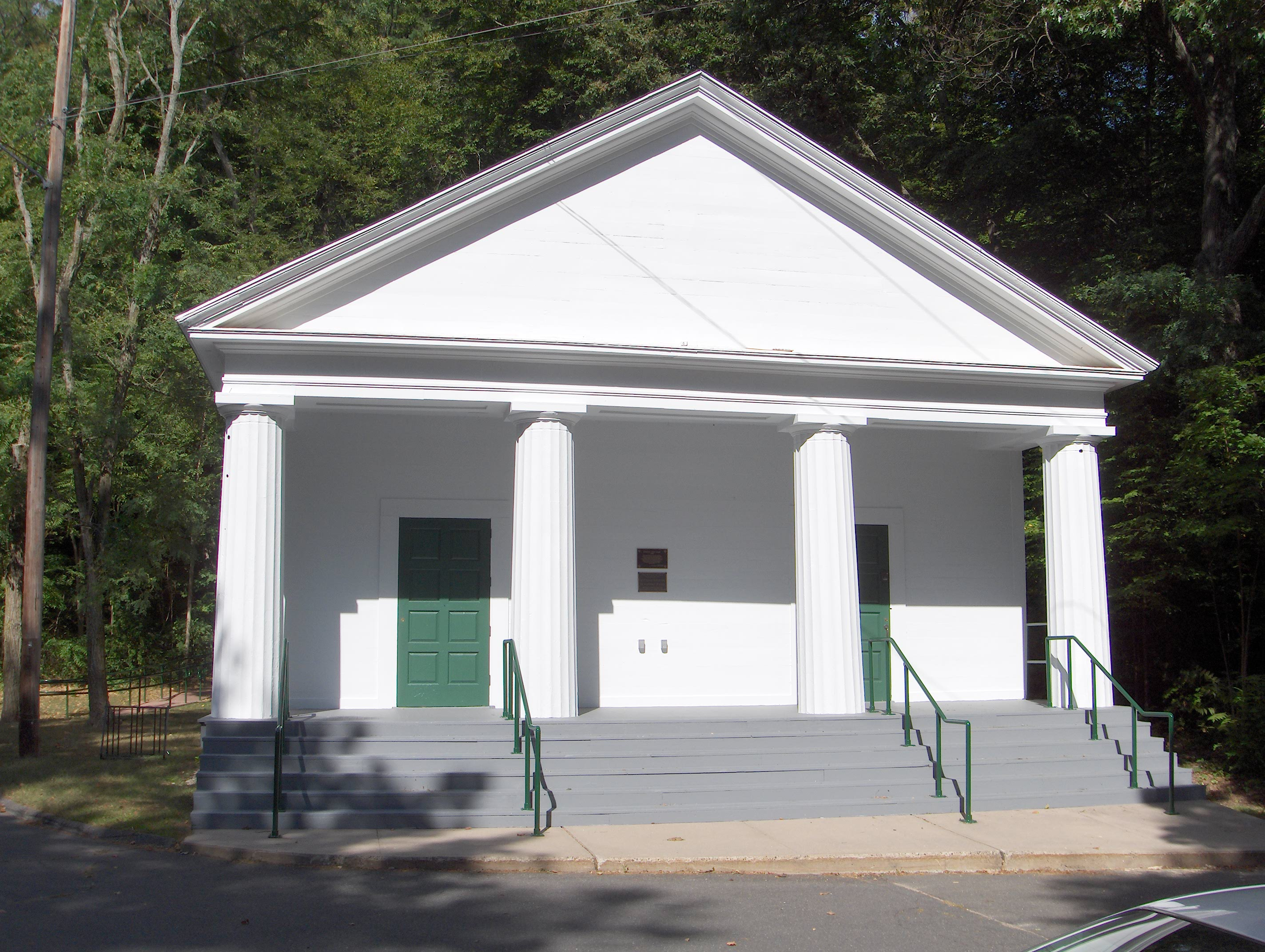 The Simsbury Town House, the original town hall, used for town meetings for almost 100 years. A National Register of Historic Places building.